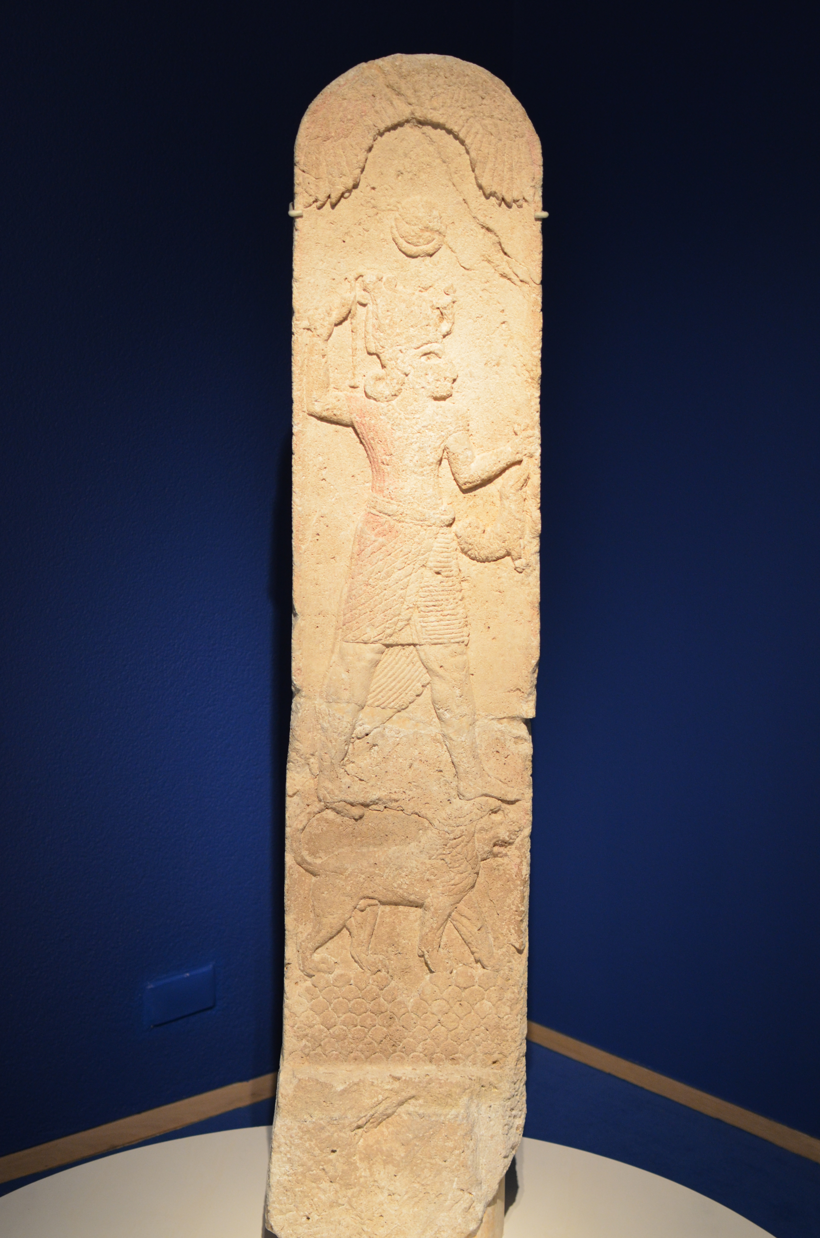 Stela from Amrit with Melqart on his lion. Photographed during temporary exhibition at Rijksmuseum van Oudheden in Leiden, the Netherlands